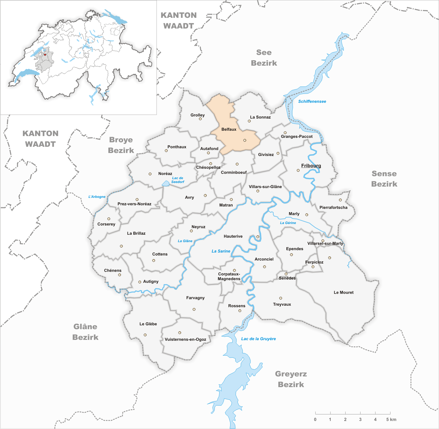 Municipality Belfaux